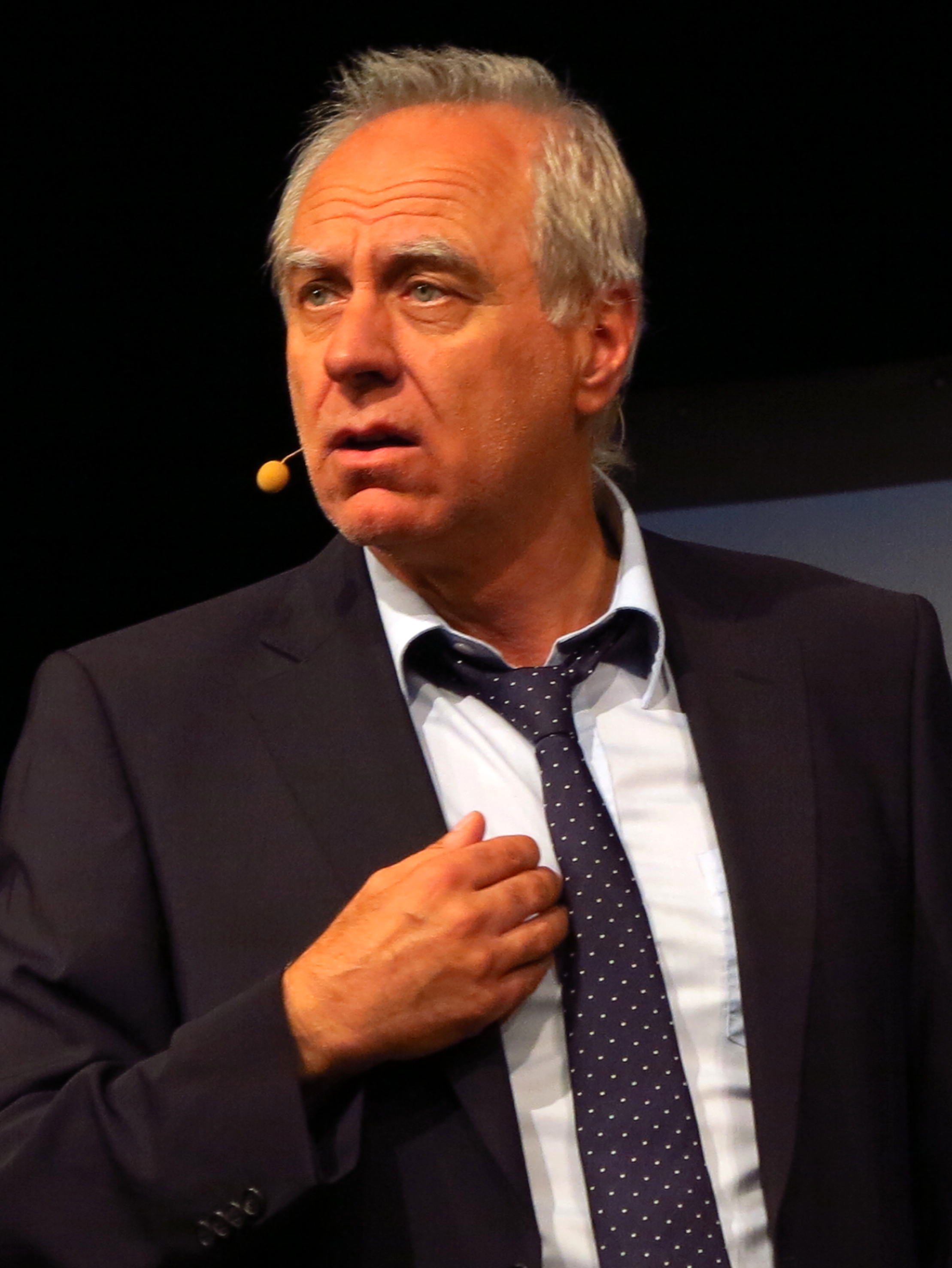 Bruno Jonas (September 2012) im Münchner Lustspielhaus mit seinem Progamm Es geht weiter